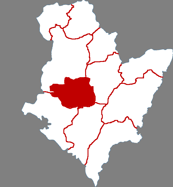 Location of ATaocheng district in Hengshui City, China